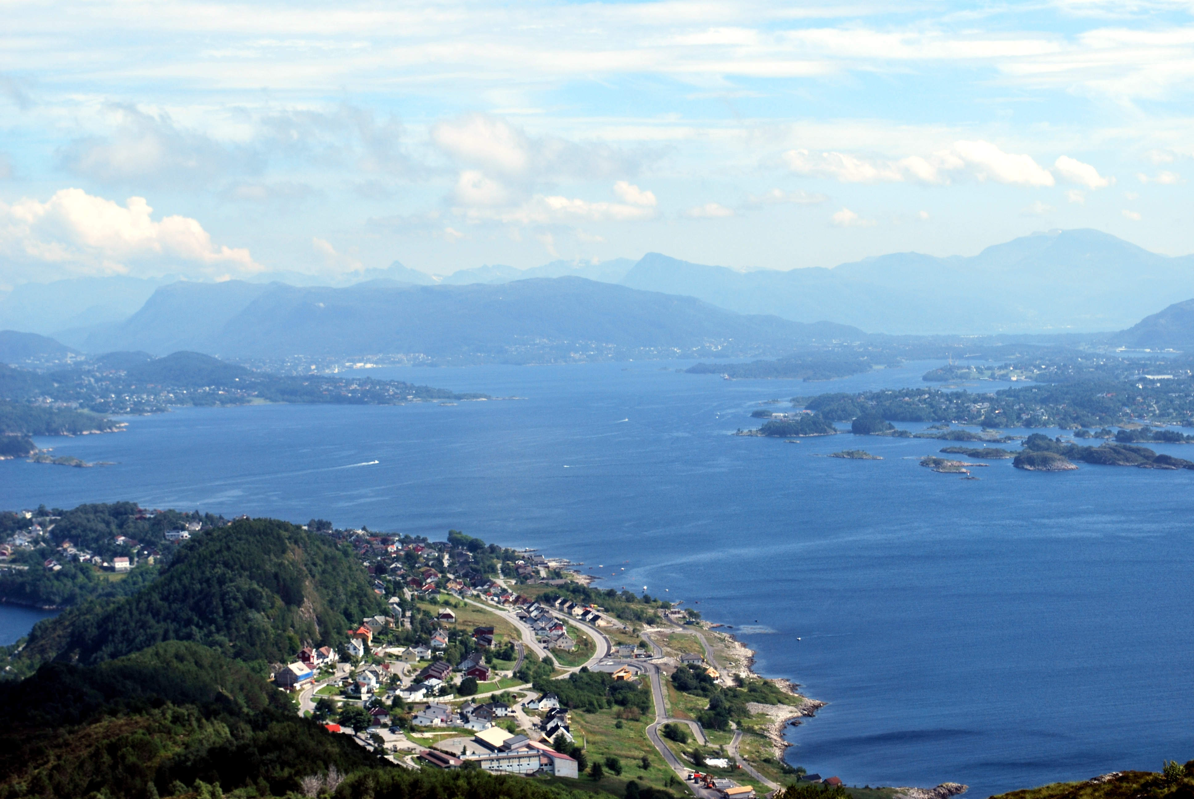 Ålesund, Norway. Hessa with Slinningen and Borgundfjorden to the right, Åsefjorden in the background.